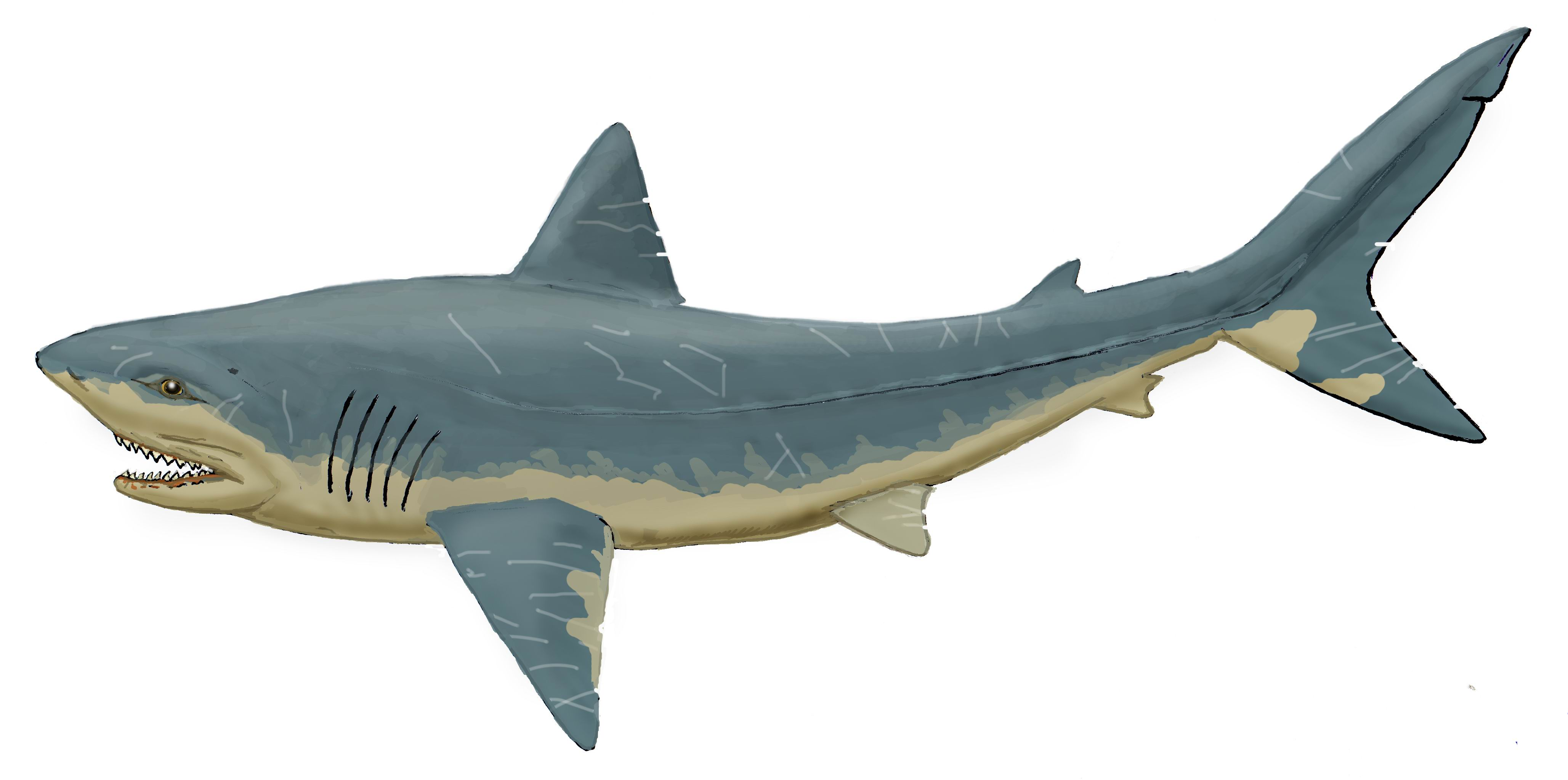 Squalicorax sp. Cretaceous lamnoid shark. Based mostly on S. falcatus.